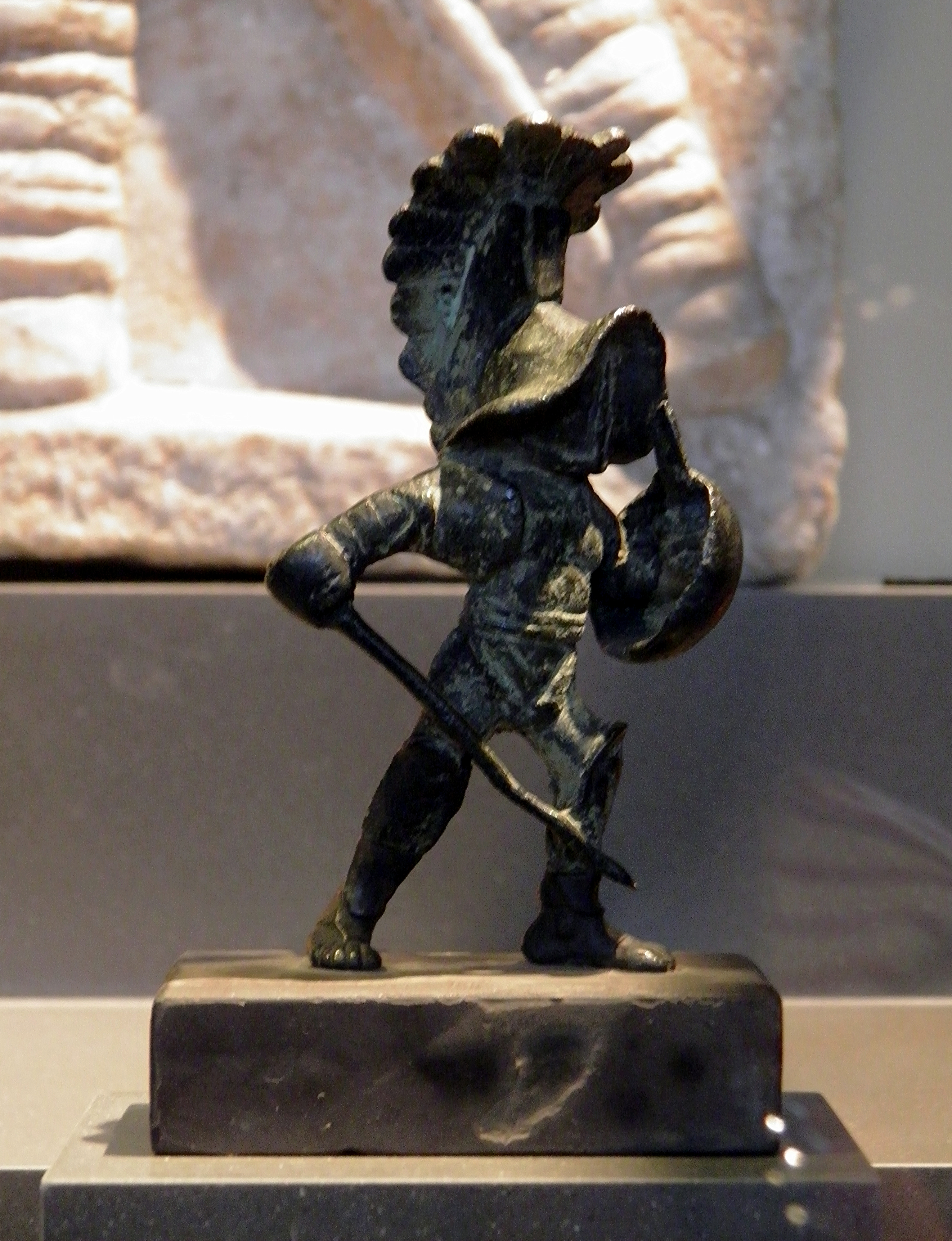 A Hoplomachus (pl. hoplomachi) (Greek: ὁπλομάχος) (hoplon meaning "shield" in Greek) was a type of gladiator in ancient Rome, armed to resemble a Greek hoplite (soldier with heavy armor and helmet, a round shield, a spear and a sword). The hoplomachus would wear a bronze helmet, a manica on his right arm, loincloth (subligaculum), heavy padding on his legs, and a pair of high greaves reaching to mid-thigh. His weapons were the spear and a short sword. He was often pitted against the murmillo (armed like a Roman soldier), perhaps as a re-enactment of Rome's wars in Greece and the Hellenistic East. The name hoplomachus means 'armored fighter'. The small, round shield was as much a weapon as a sword or spear, not unlike the original hoplites (who carried a larger shield), who used it primarily for defensive purposes, but also employed it in their charges, using it to ram their opponents at the onset of a fight. They wear no shoes so the sand will chafe their feet and give them a challenge. His usual opponent was the murmillo but he might fight the thraex in exceptional cases. Some experts believe that it was one of two designations of Samnite, and that Samnites were called hoplomachi when battling a Thracian, and a secutor when matched against retiarii.